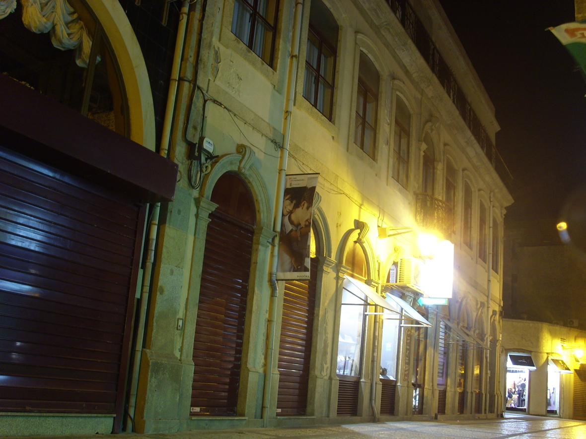 Historic 19th Luso-Brasileiro Hotel in Póvoa de Varzim, Portugal